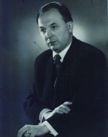 Danilo Švara (1902-1981), Slovene composer and conductor.